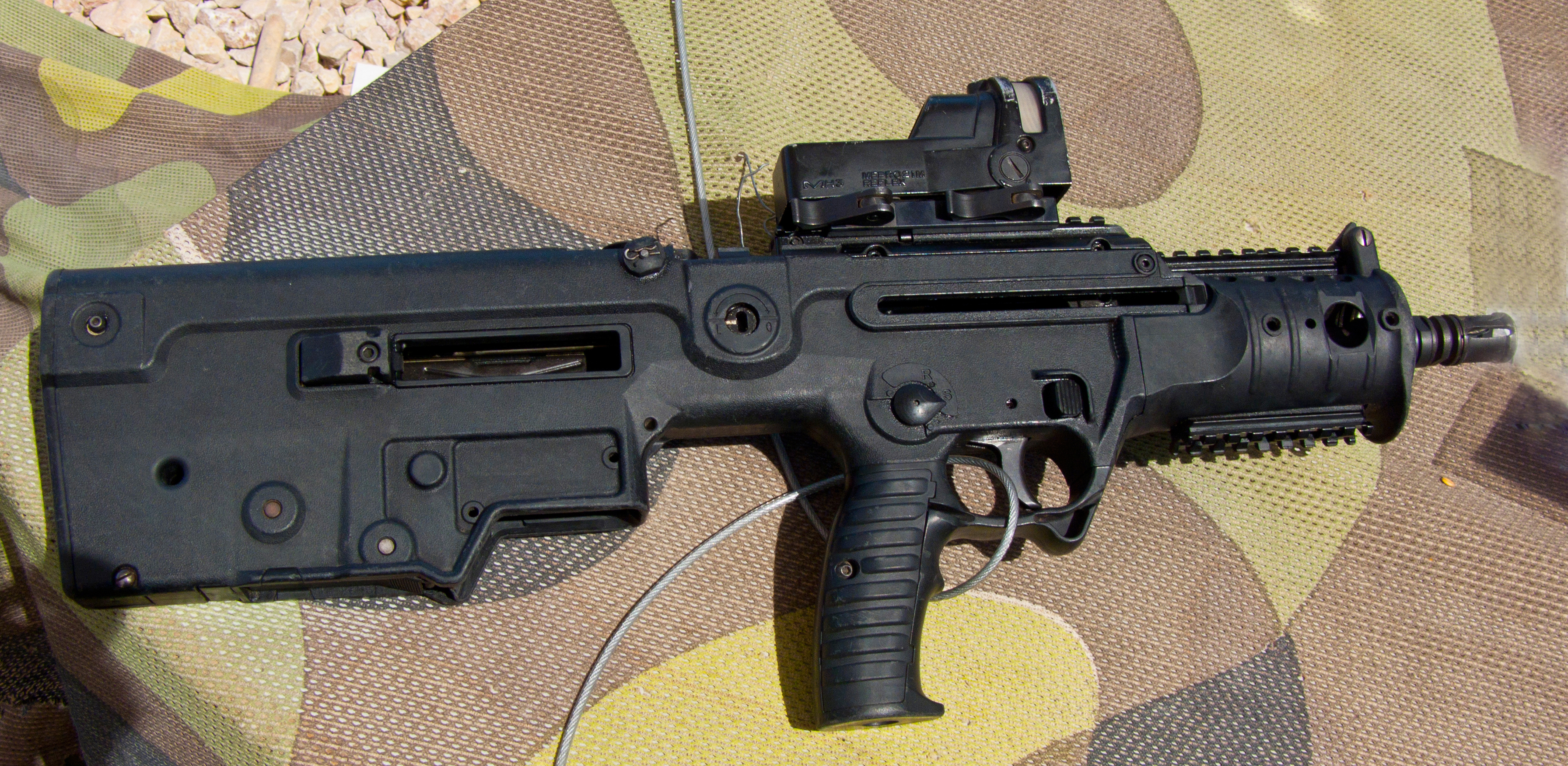 IWI Micro-Tavor MTAR-21 bullpup assult rifle, within IDF service. The rifle is marketed worldwide by the IWI under the designation X-95.